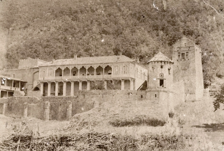 Palace of knyaz Eristov in Akhalgori